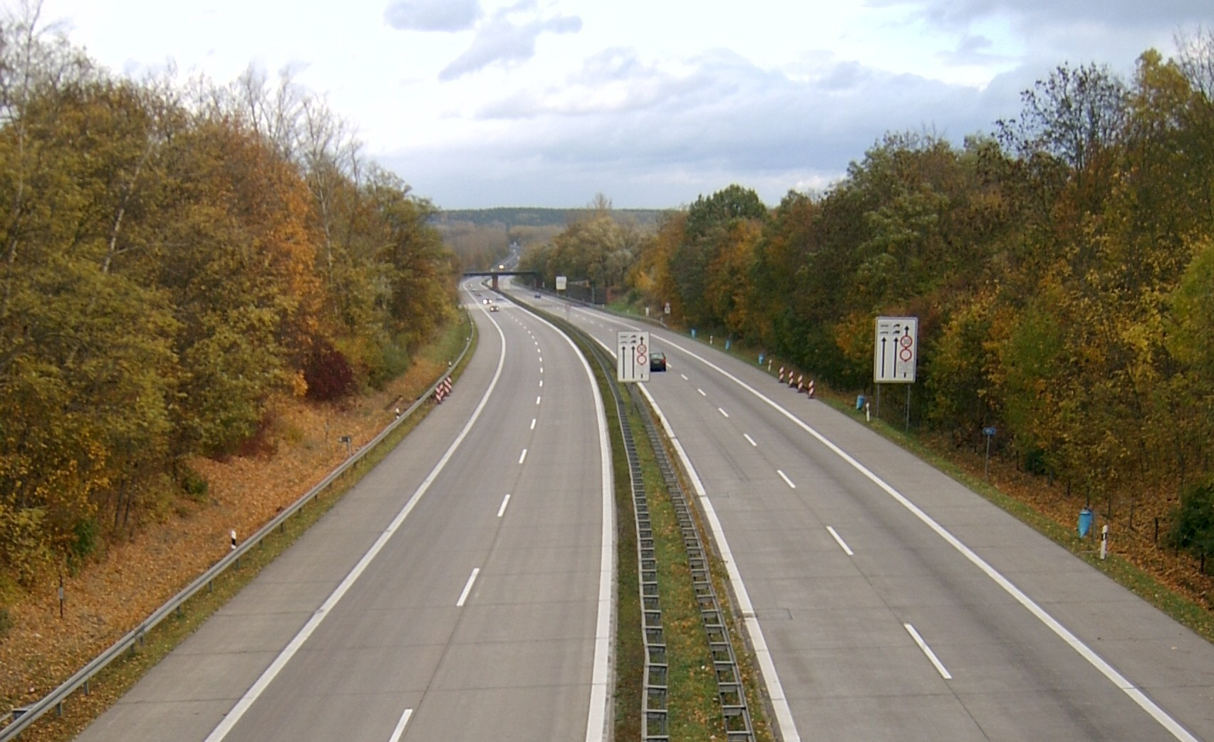 Autobahn 12 in Frankfurt (Oder). View from the bridge of Güldendorfer Straße to the east, towards the German/Polish border.